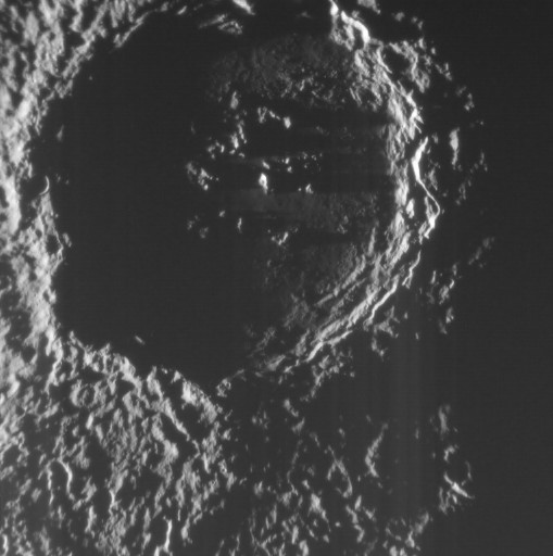 Chao Meng-Fu crater at the south pole of Mercury. MESSENGER Narrow Angle Camera. Emission Angle: 8.1 Incidence Angle: 89.1 Latitude: -89.0 Longitude: 160,9 Phase Angle: 82.7